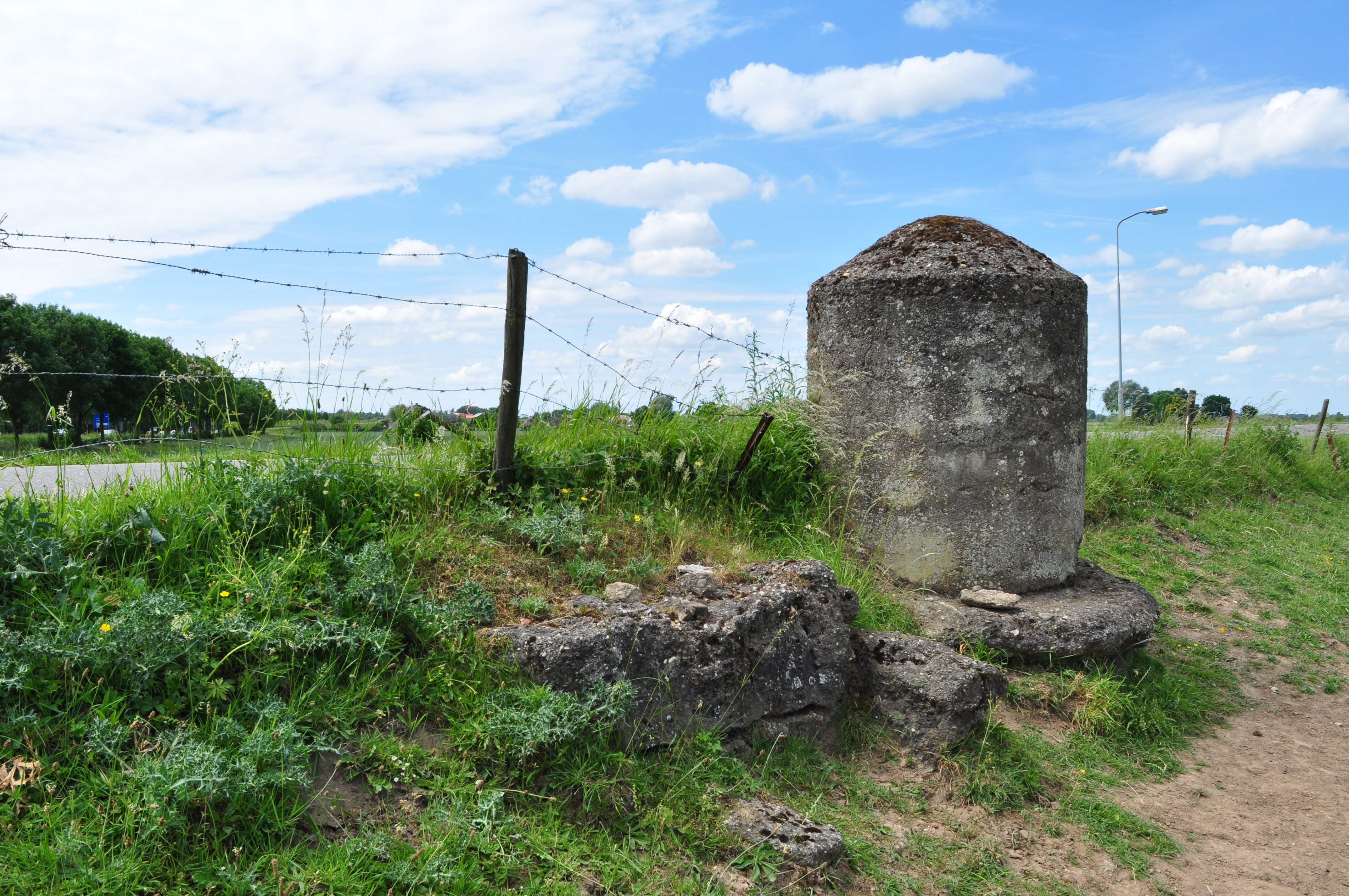 Pillar of a road barricade of the Pantherstellung at the village of Herwen